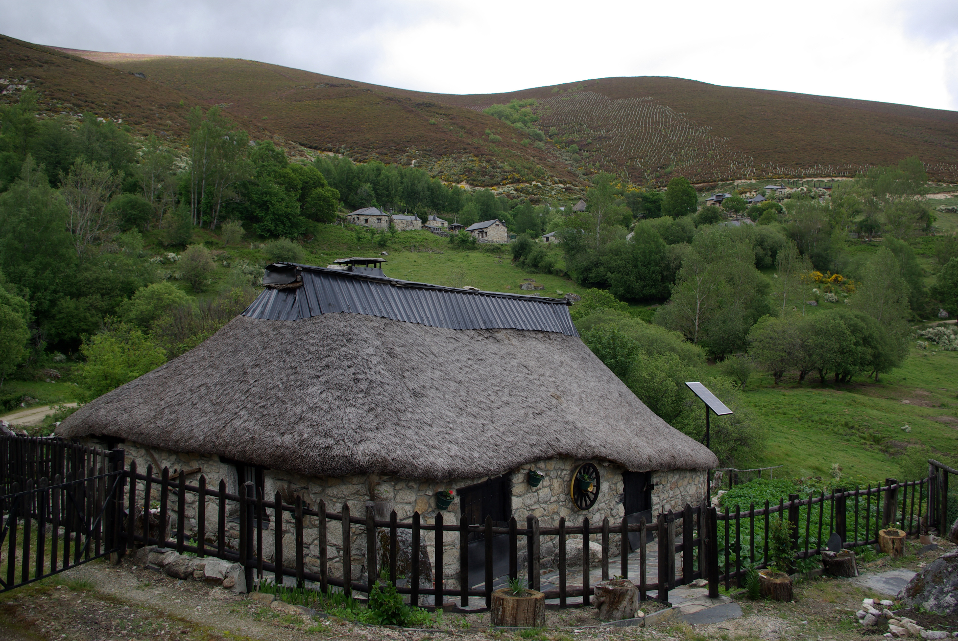 Thatched roof house in Campo del Agua, Villafranca del Bierzo (León, Spain)